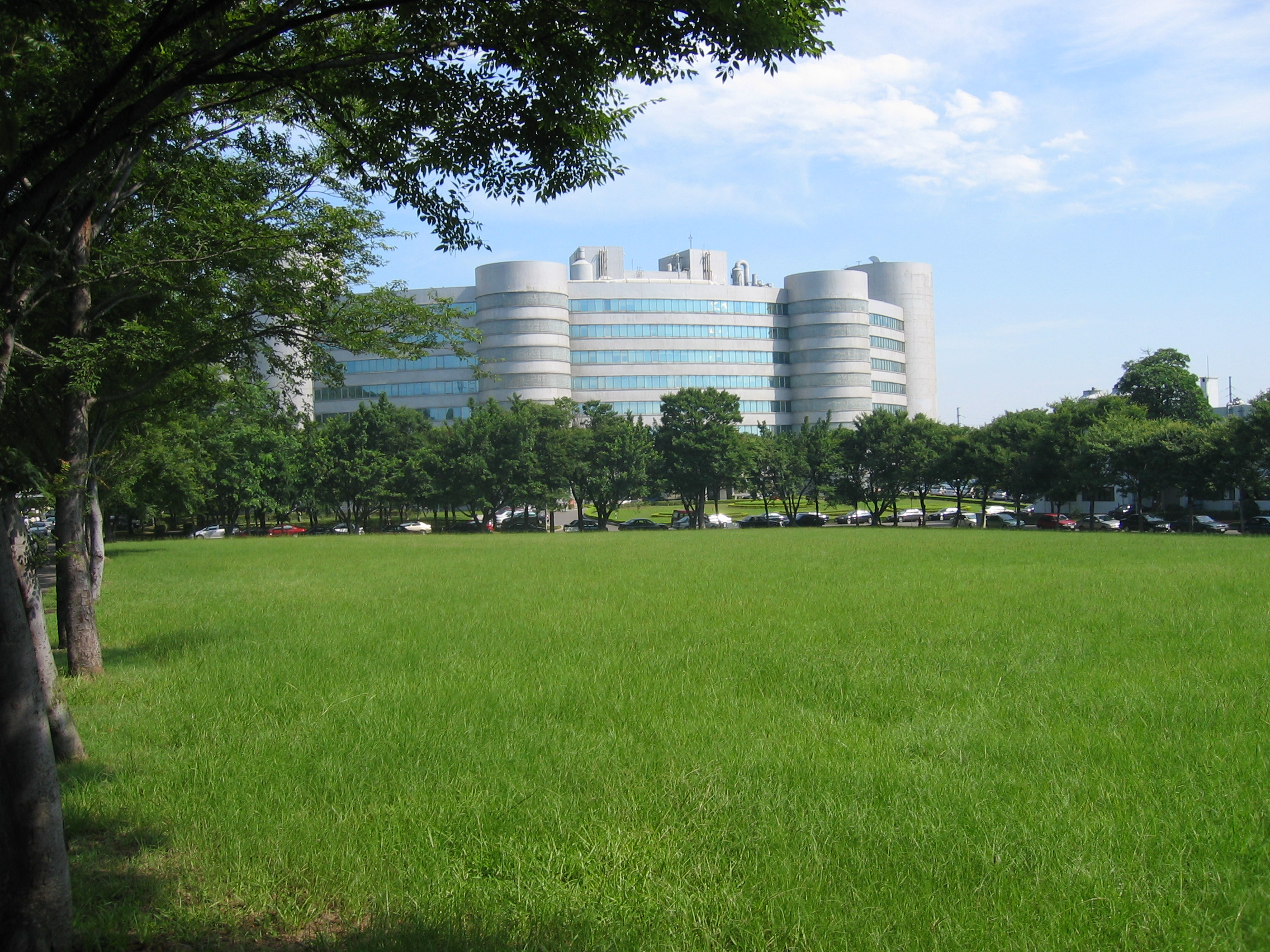 Photo taken on 2005.06.30 by User:Jiang in Hsinchu County, Taiwan Province, Republic of China.